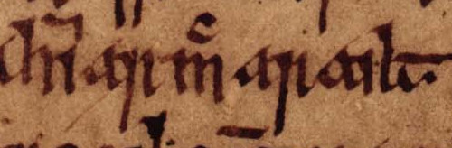 An excerpt from folio 17r of Oxford Bodleian Library MS Rawlinson B 488 (the Annals of Tigernach). The excerpt concerns Ímar mac Arailt, King of Dublin (died 1054).